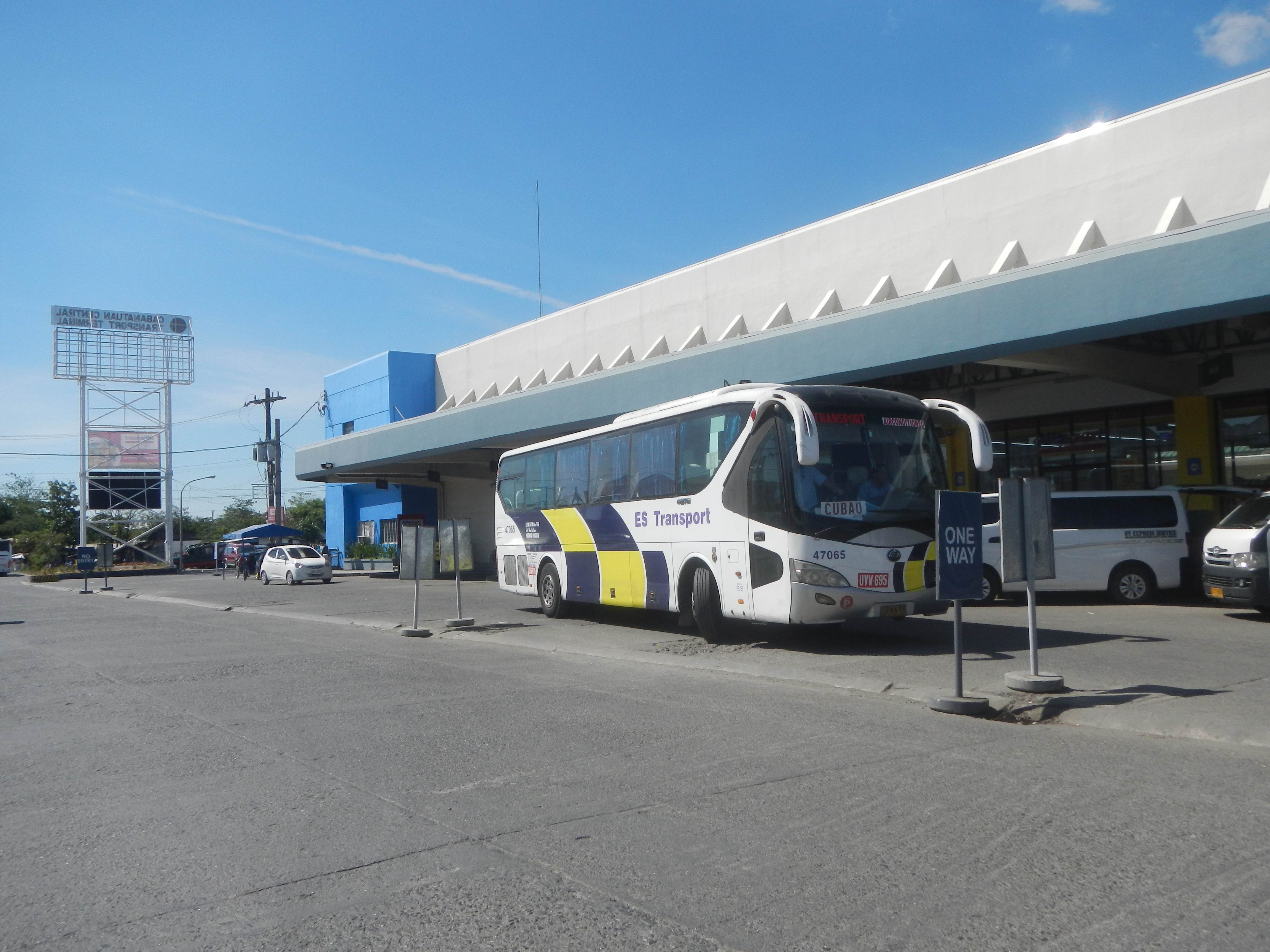 Cabanatuan City Central Transport Terminal from Circumferential Road, Cabanatuan City corner Pan-Philippine Highway Maharlika Highway (Cagayan Valley Road, Cabanatuan City) Barrera District 15°28'44"N 120°58'3"E M. S. Garcia 15°28'44"N 120°57'47"E Cabanatuan City, Nueva Ecija (Note: Judge Florentino Floro, the owner, to repeat, Donor Florentino Floro of all these photos hereby donate gratuitously, freely and unconditionally Judge Floro all these photos to and for Wikimedia Commons, exclusively, for public use of the public domain, and again without any condition whatsoever).